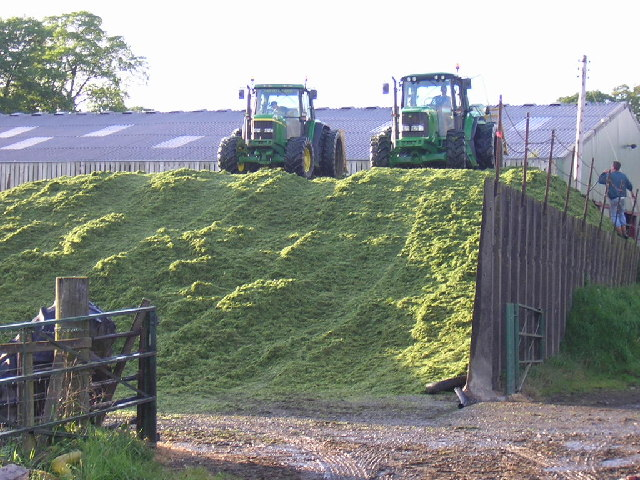 Two John Deere tractors compacting grass silage on a farm's bunker silo near to Kirkconnel, Dumfries And Galloway, Great Britain.